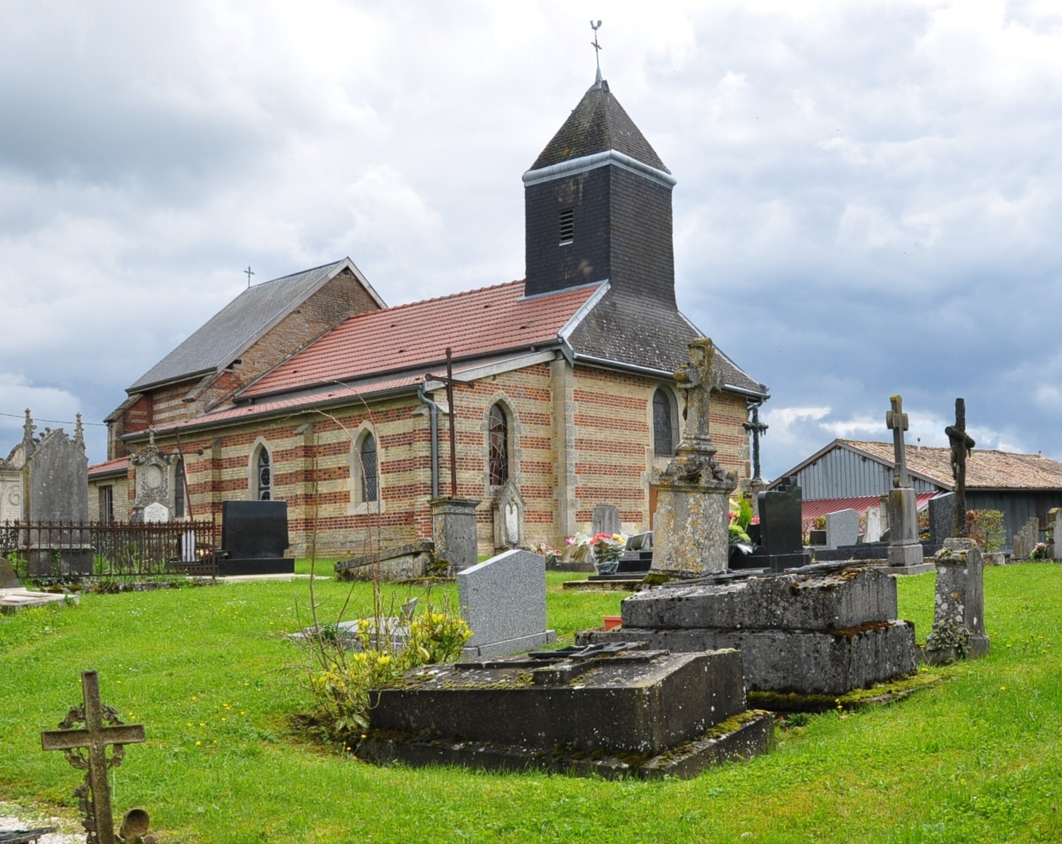 Church of St. Julian in Élise (municipality of Élise-Daucourt, canton Sainte-Ménehould, arrondissement Sainte-Ménehould, Marne department, Champagne-Ardenne region, France). The church is not a listed building.